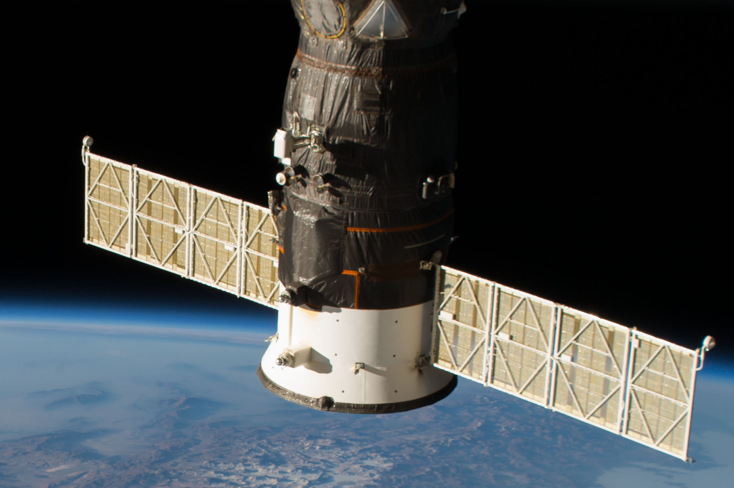 Russia's docked spacecraft, the Progress 70 resupply ship, is pictured as the orbital complex flew 253 miles above the Andes mountain range and the South American continent.